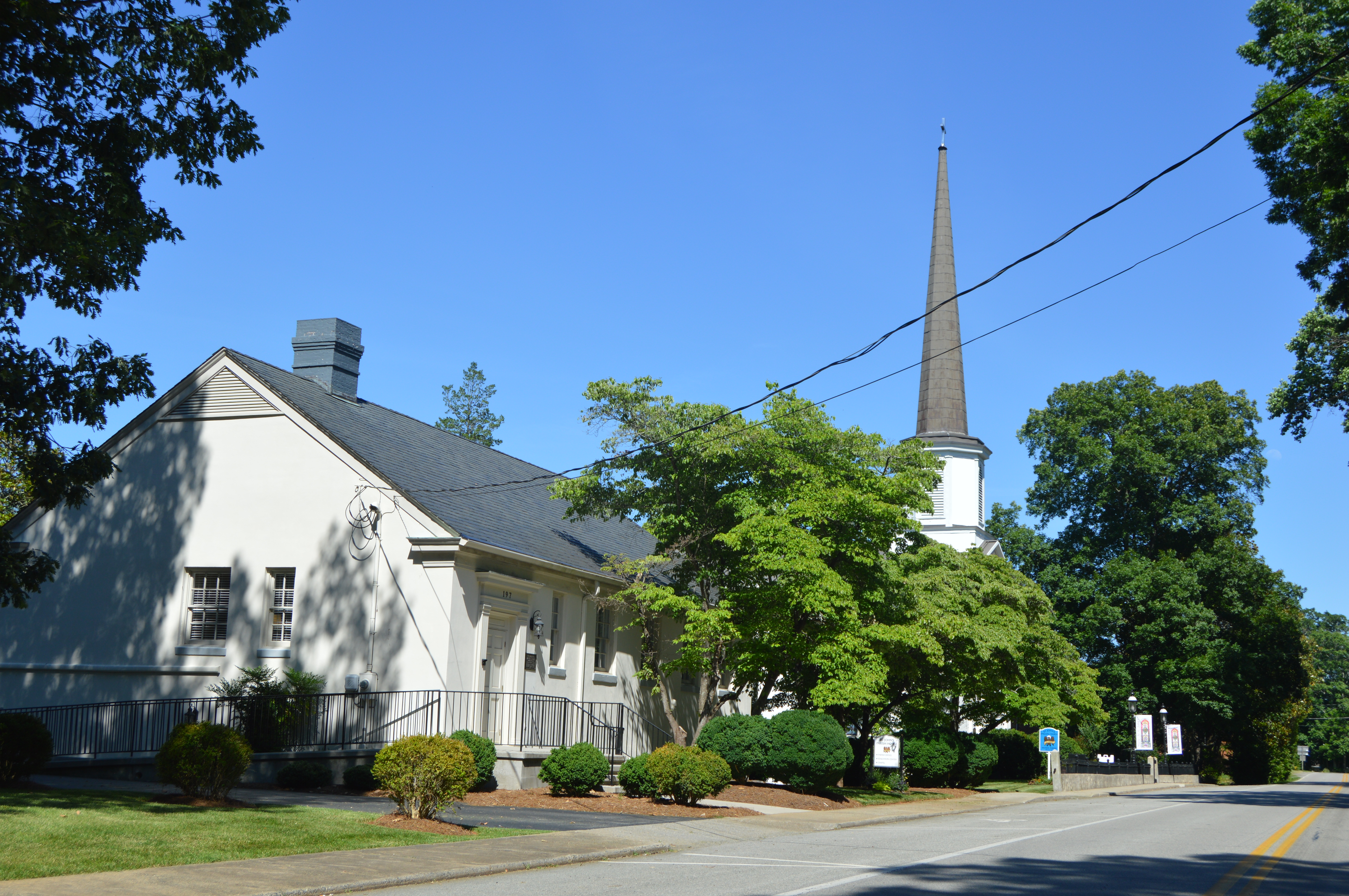 Buildings on the northern side of Mountain Road (State Route 360) in Halifax, Virginia, United States. The nearer building is the recent parish hall for St. John's Episcopal parish, whose 1844 church building is visible in the distance. This section of the road is part of the Mountain Road Historic District, a historic district that is listed on the National Register of Historic Places.